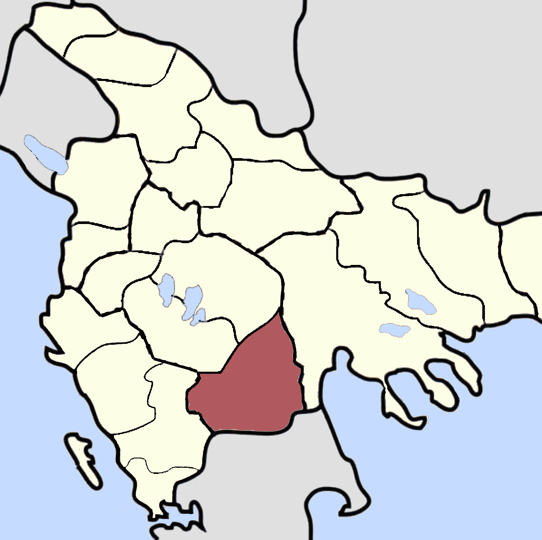 XY Sanjak, Ottoman Empire (late 19th century). Source: The Crescent and the Eagle- Ottoman Rule, Islam and the Albanians, 1874-1913 at Google Books By George Gawrych